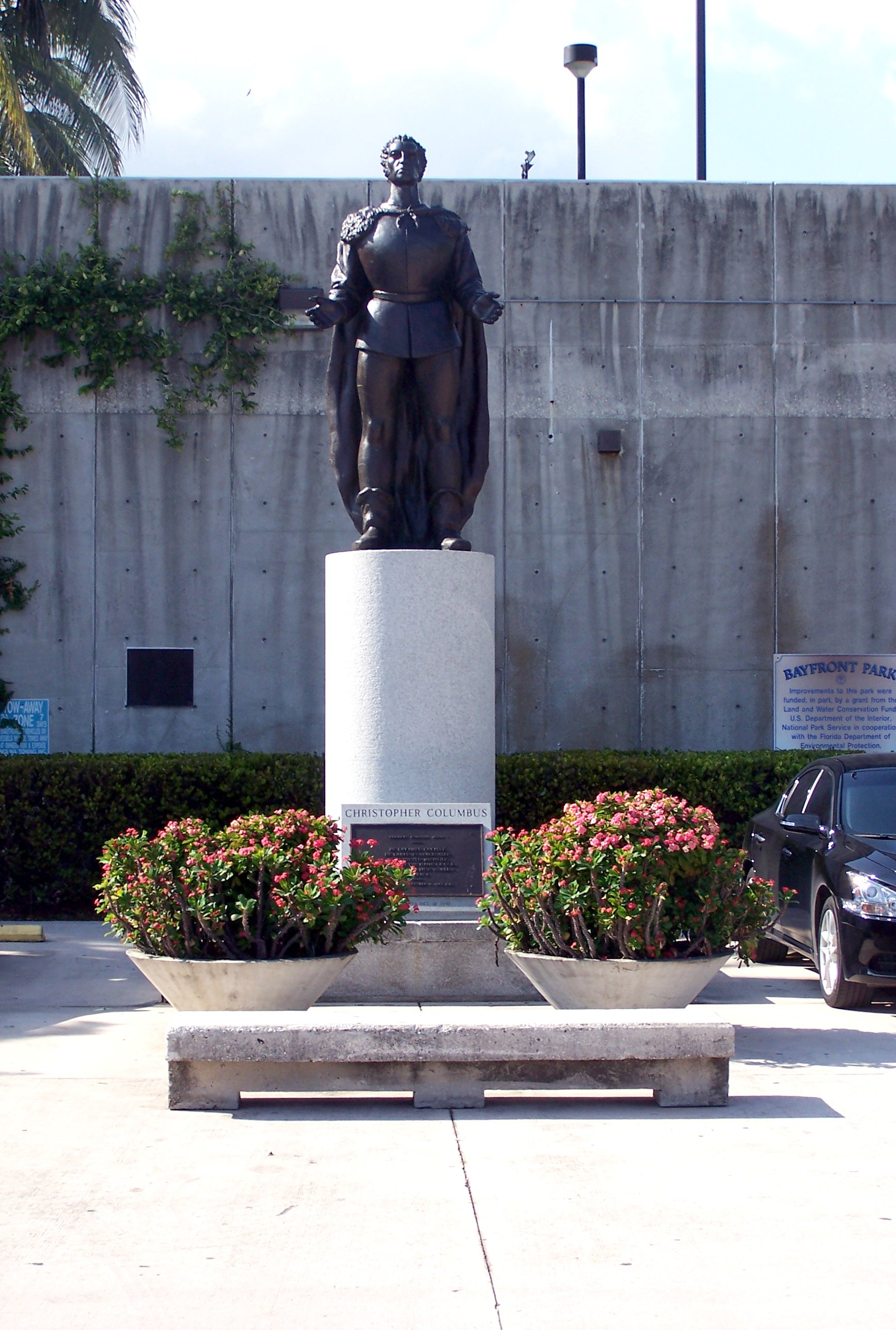 Statue of Christopher Columbus near the port of Miami